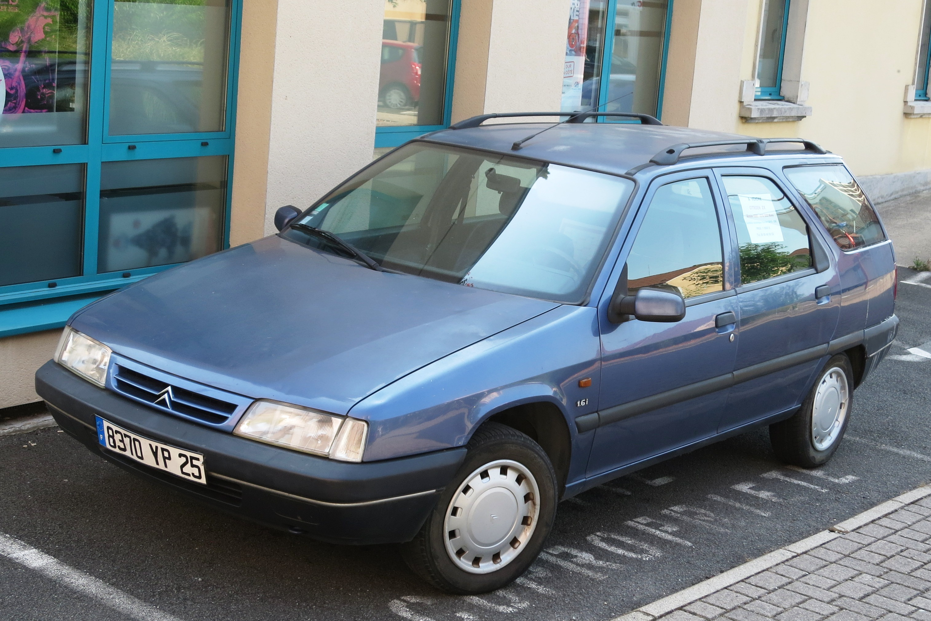 Citroën ZX Break parked a five minute walk from the Peugeot Museum at Sochaux